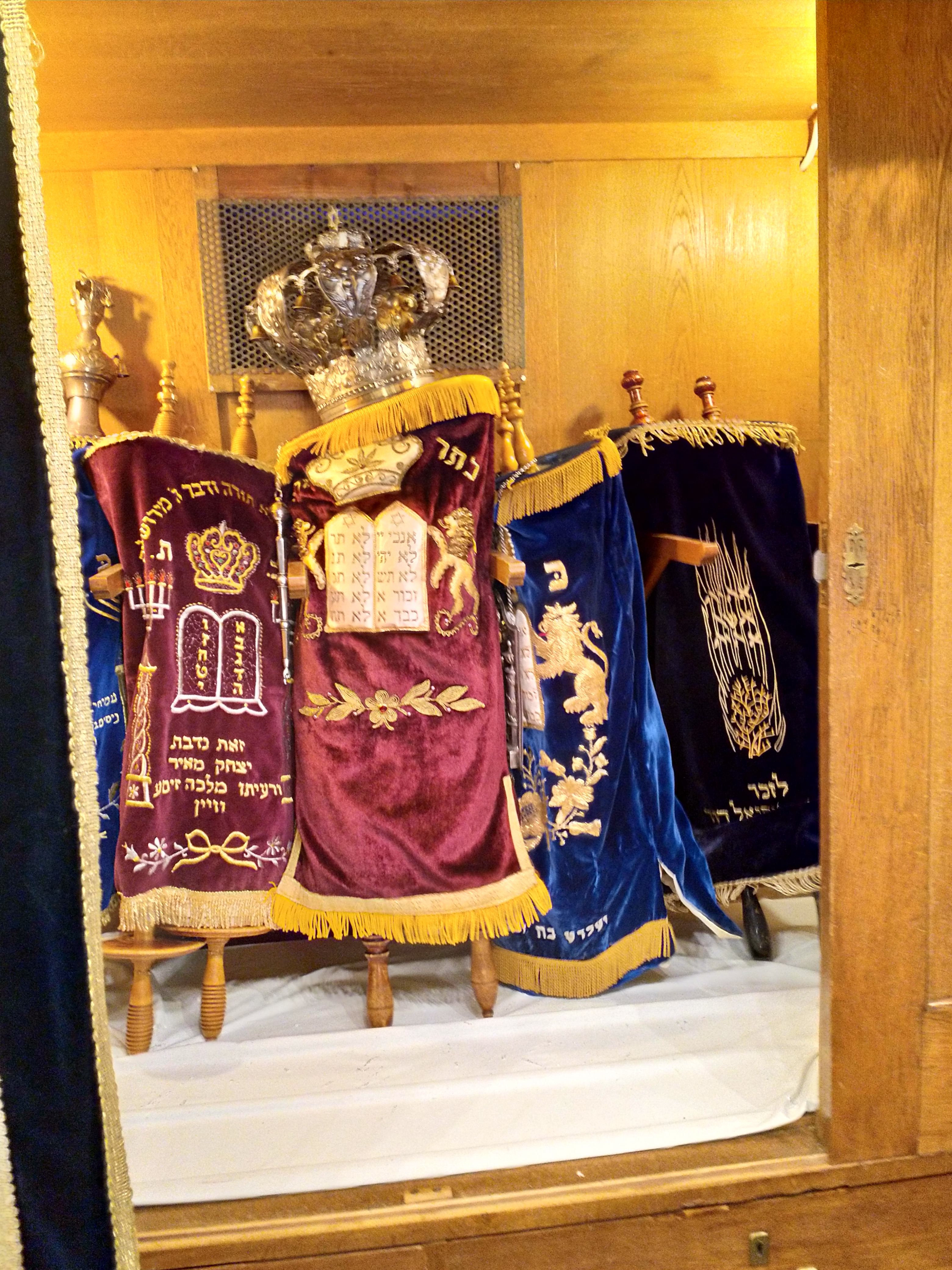 The picture shows the Torah Wheels of the Jewish Congregation of Helsinki